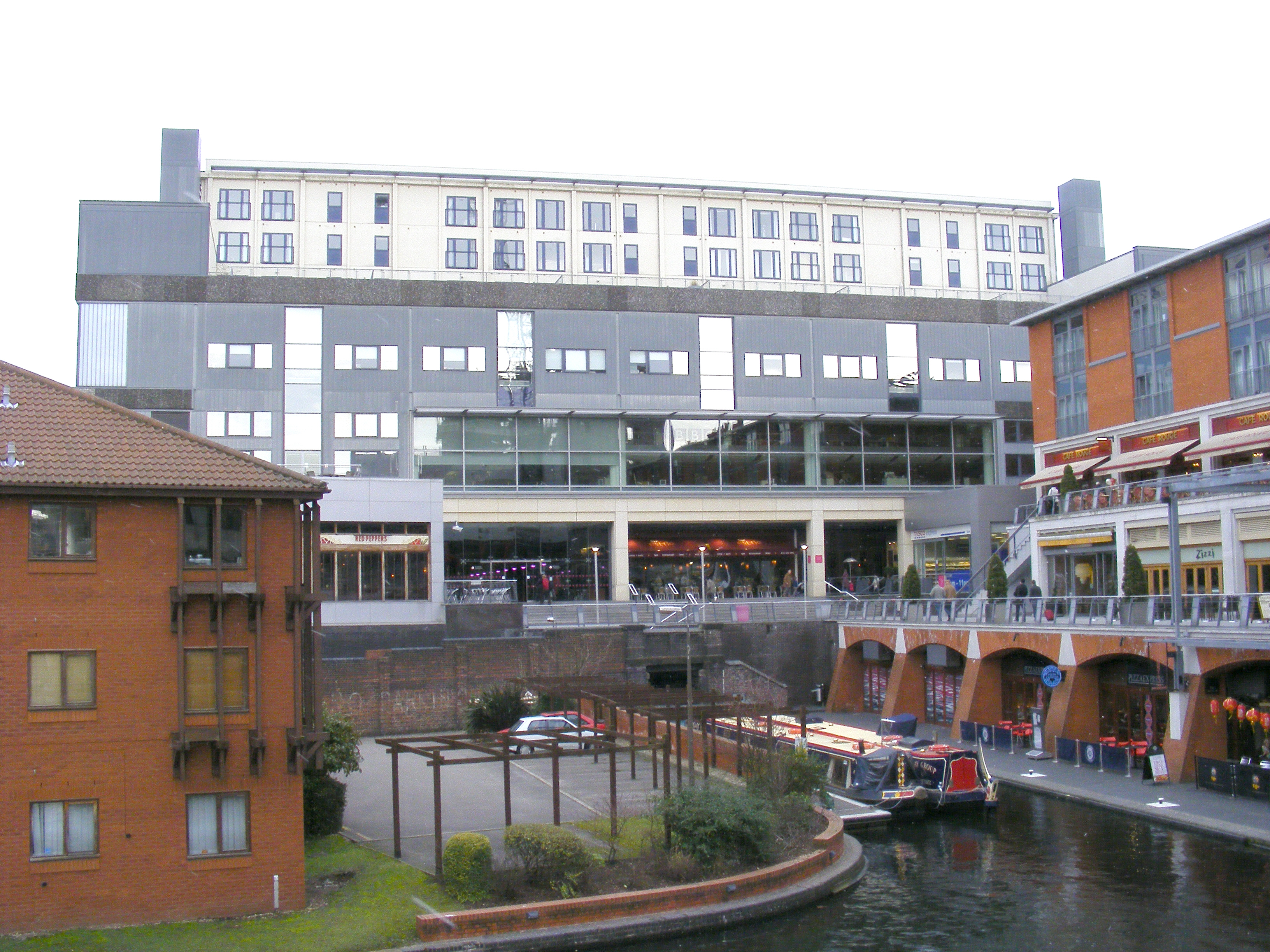 The Mailbox, Birmingham, canalside view showing the BBC Birmingham studios. This includes BBC Midlands television, and BBC Radio WM local radio. The random white streaks are the beginning of the February 2009 snowfall.